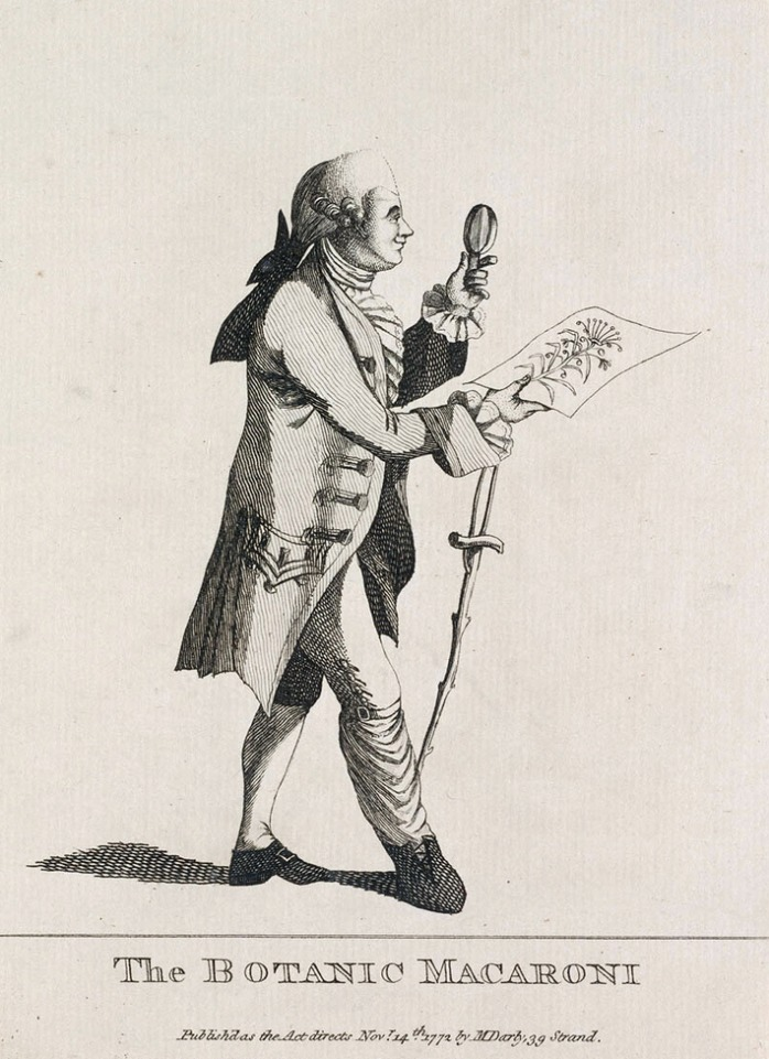 The Botanic Macaroni, 1772; a satire of Joseph Banks